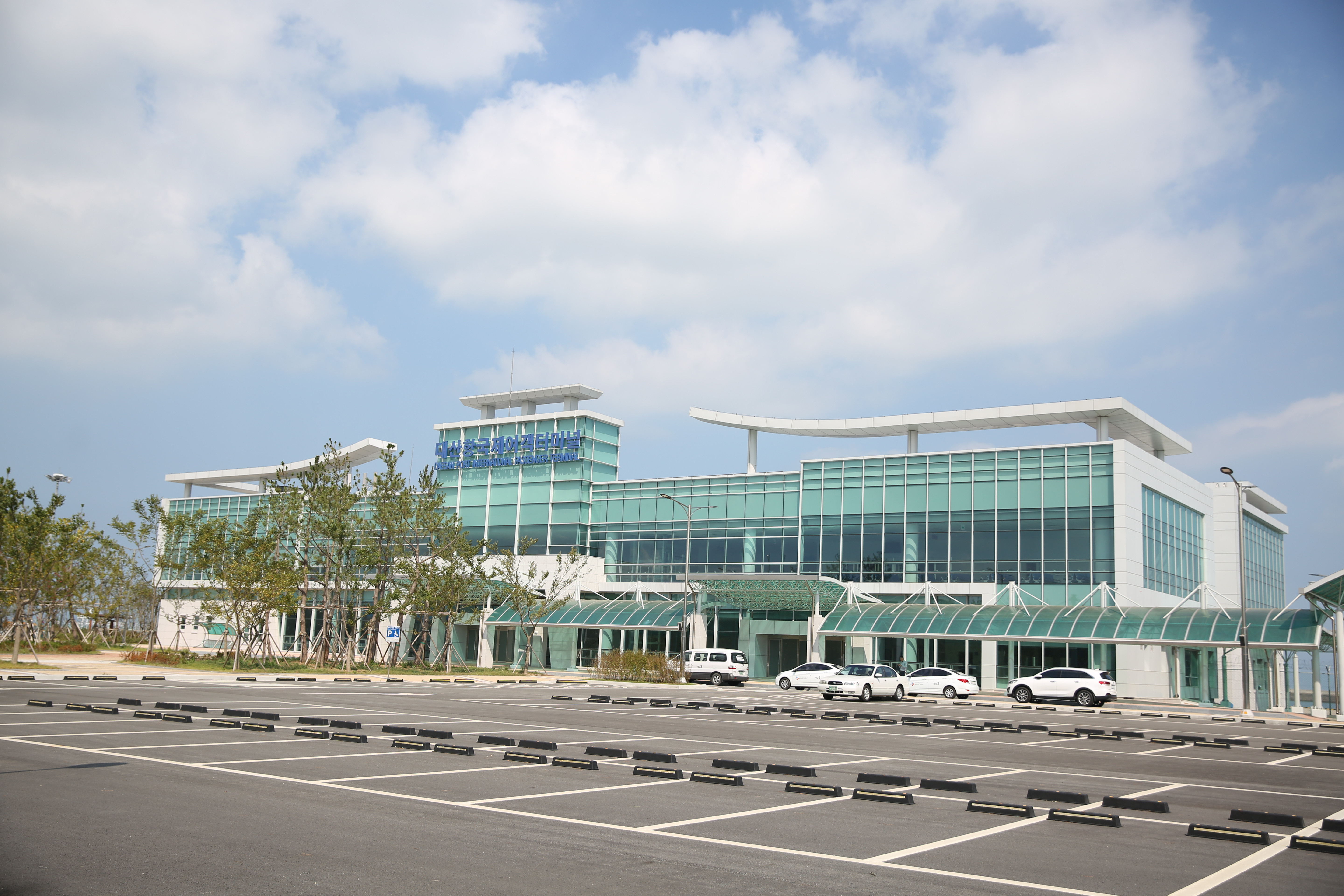 Daesan Port in Seosan City